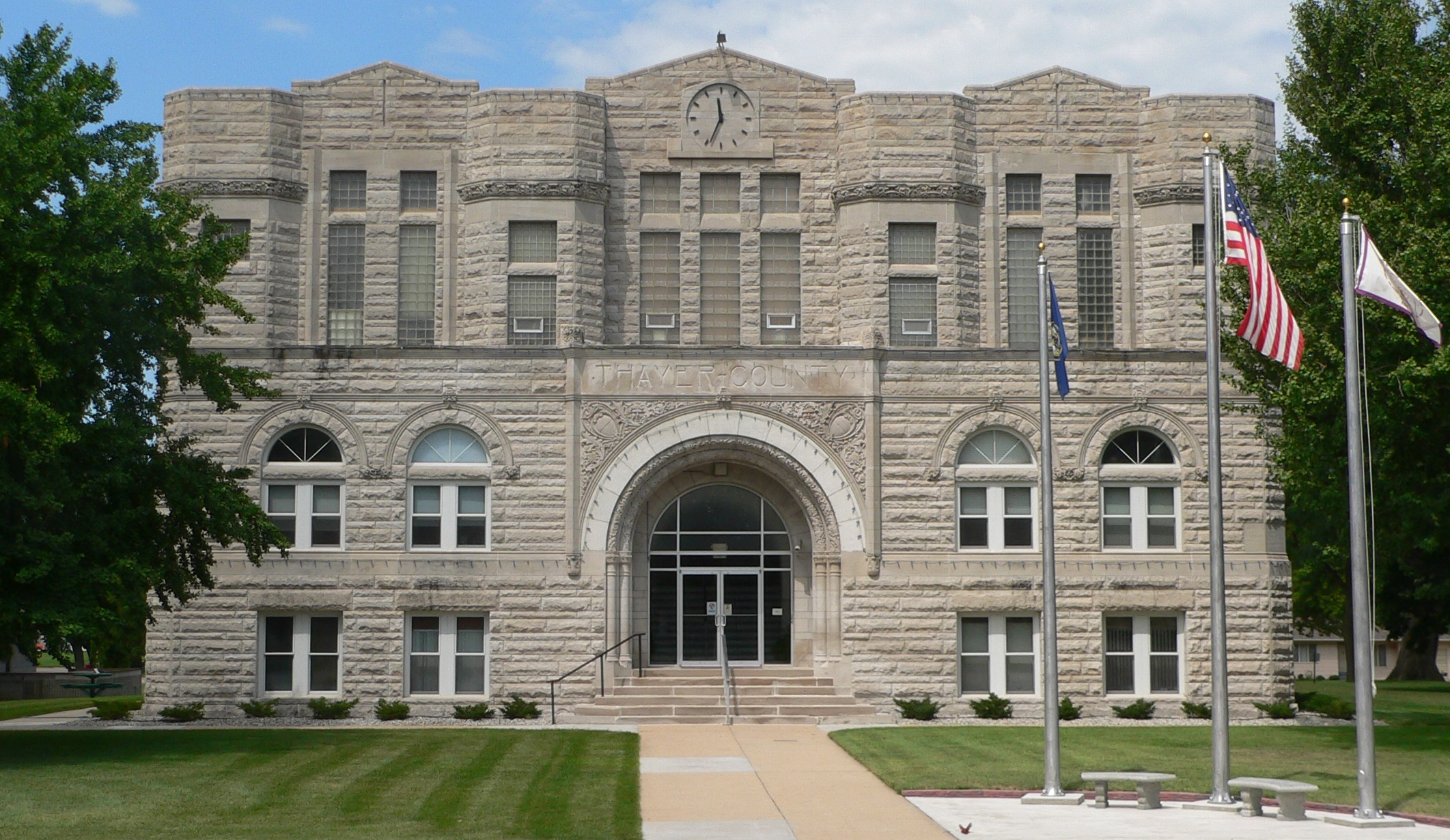 Thayer County Courthouse in Hebron, Nebraska; seen from the east. The building was constructed in 1901.